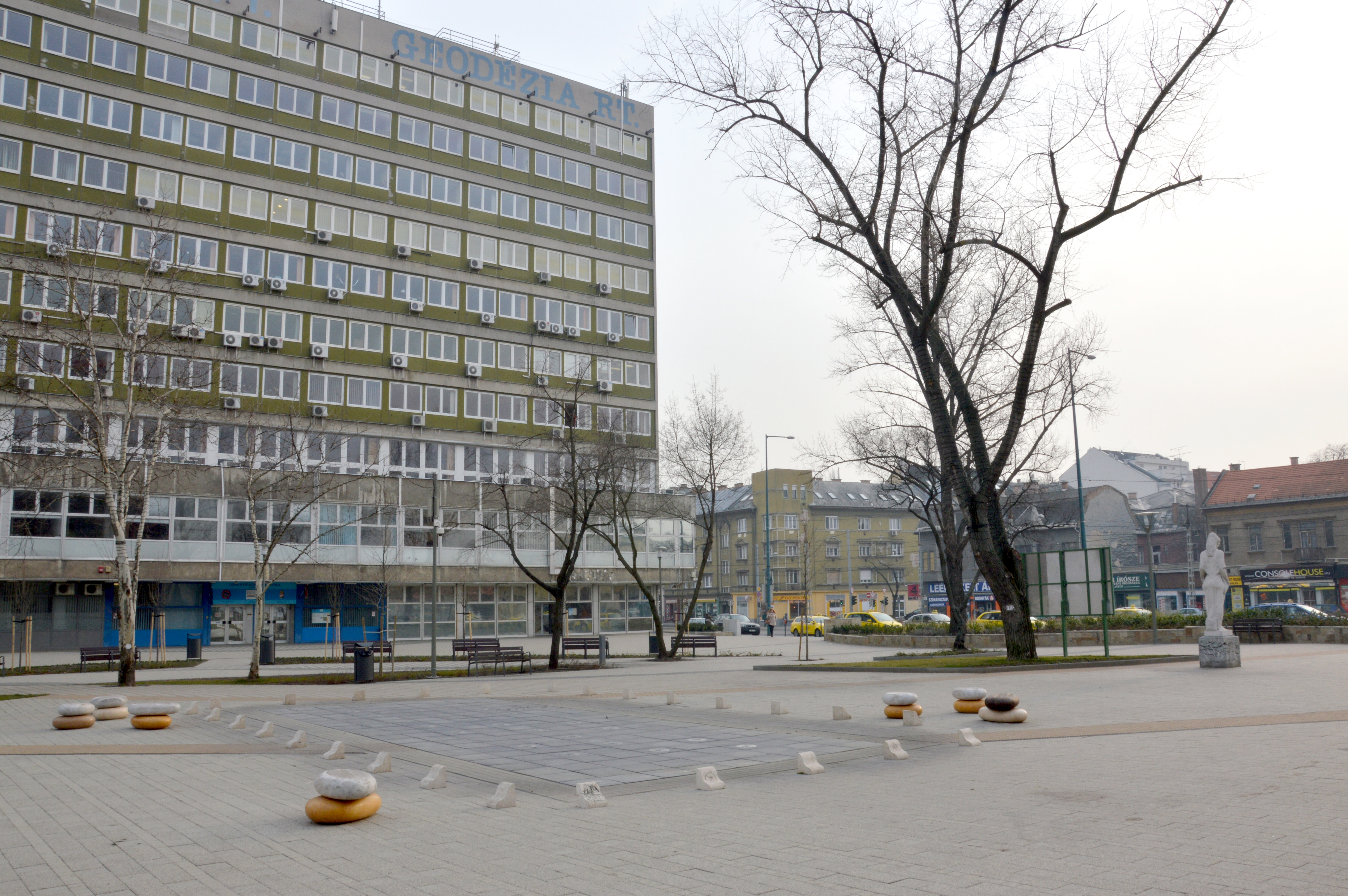 Geodéziai és Térképészeti Zrt. and square, at 5 Bosnyák tér, Budapest District XIV, Hungary